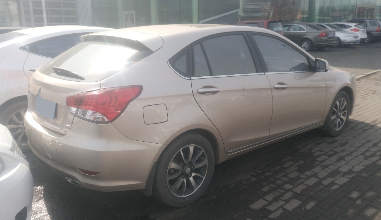 Soueast V6 Lingshi photographed in Harbin, Heilongjiang province, China.